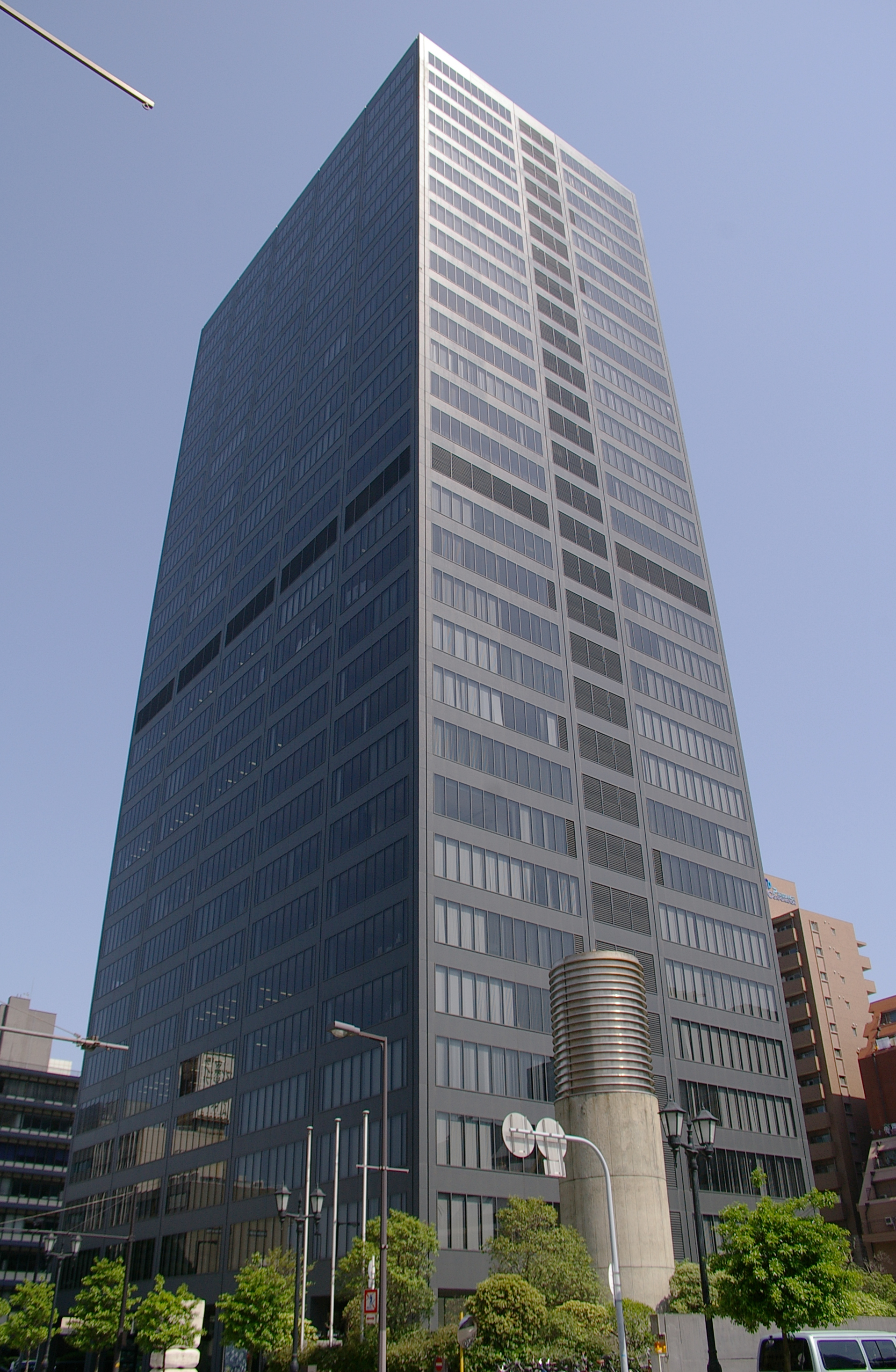 Photograph of Osaka Obayashi Building, registered headquarters of Obayashi Corporation, in Chuo-ku, Osaka, Osaka Prefecture, Japan.